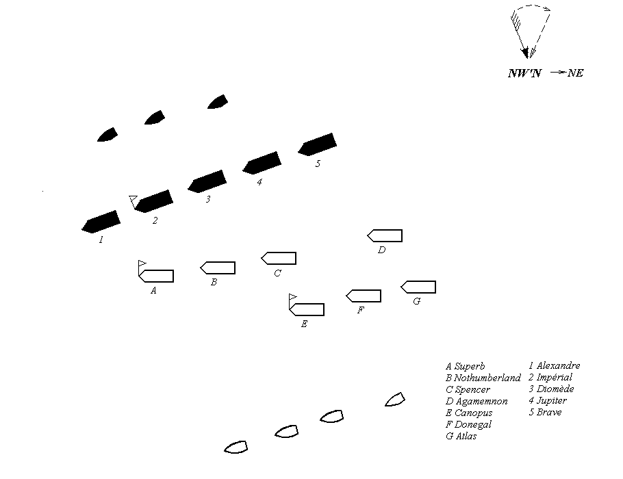 Battle of San Domingo; positions by 10:00 am